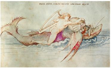 Albrecht Dürer, Riding a Dolphin, watercolor, circa. 1514 In this Albrecht Dürer’s 1514 watercolor, Arion is seen riding a dolphin with tusks.